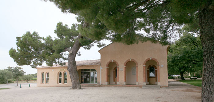 the village of Saint-Hippolyte-le-Graveyron, Vaucluse, France